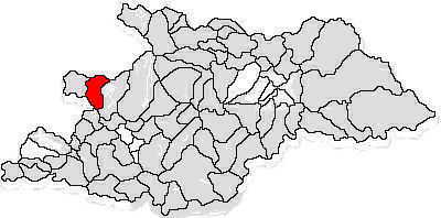 Map of Cicărlău commune in Maramureş